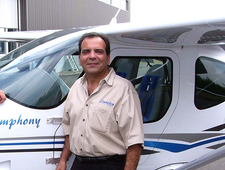 Photo of Paul Costanzo taken in August 2005